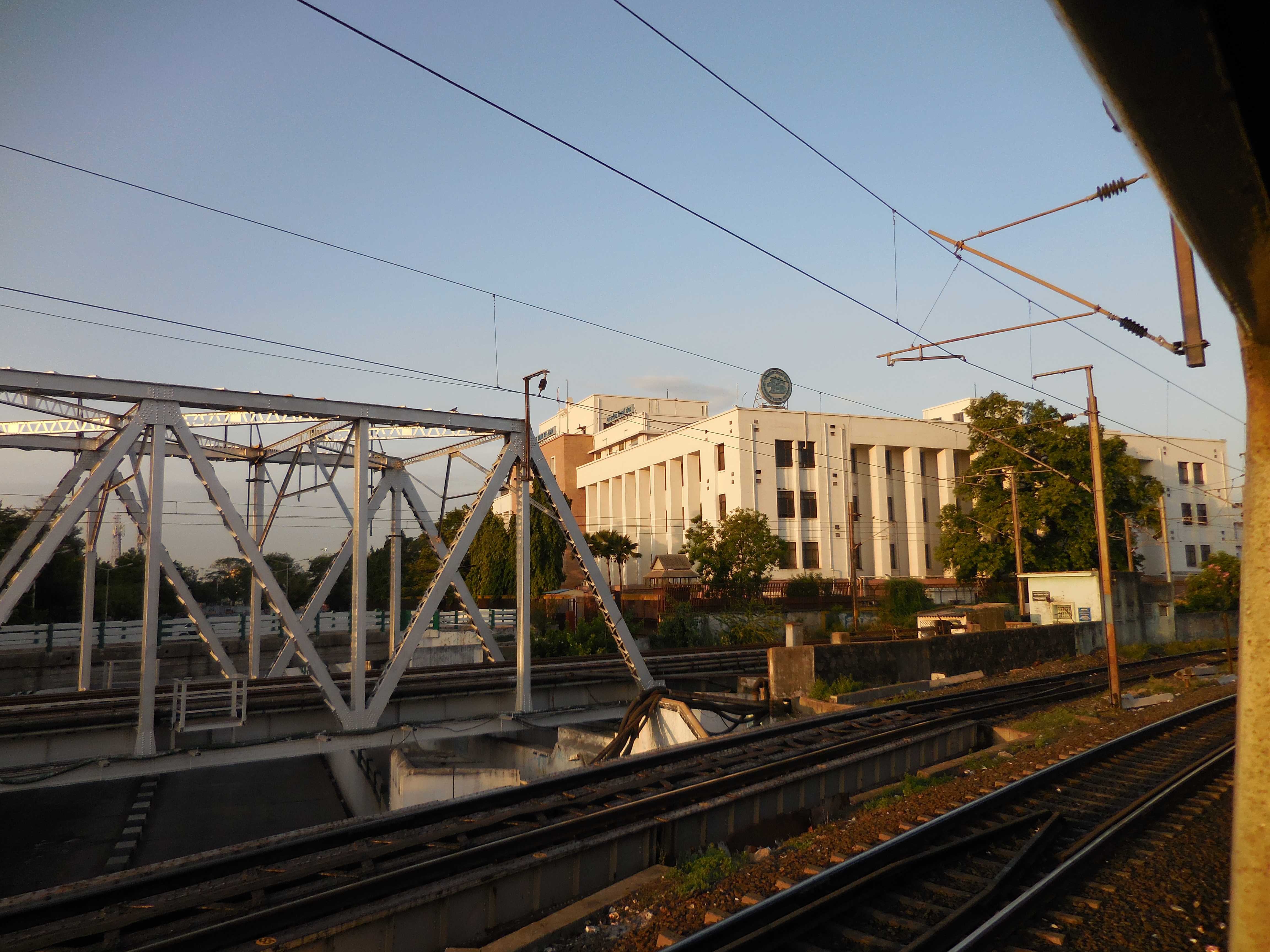 A view of RBI, Chennai, from suburban lines, taken on 5 July 2014, at 6:21 am